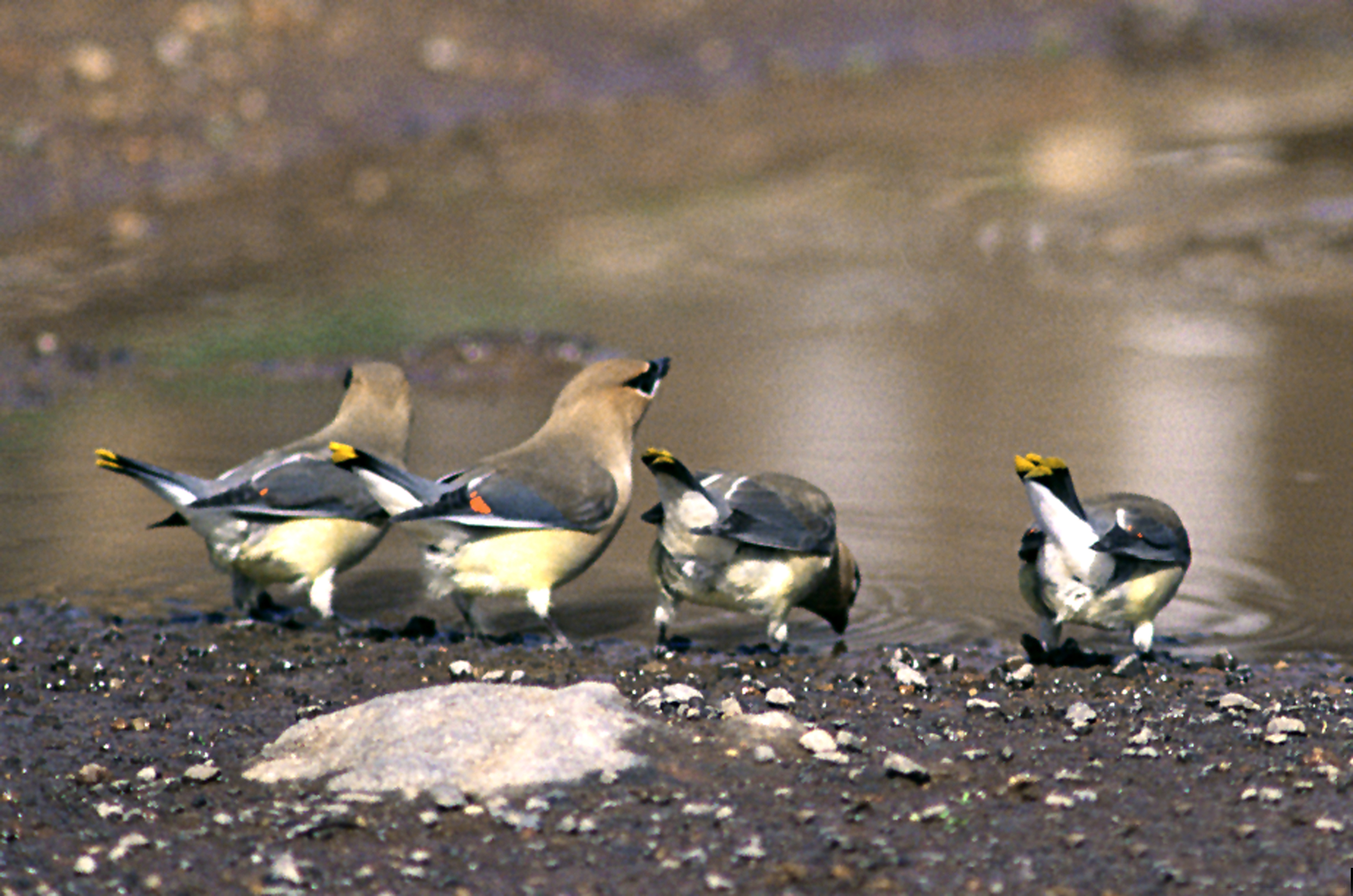 Adult Cedar Waxwings drinking from a puddle